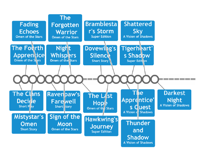 Third Timeline for Warriors Series, spanning from before Omen of the Stars to Book 4: Darkest Night in A Vision of Shadows series